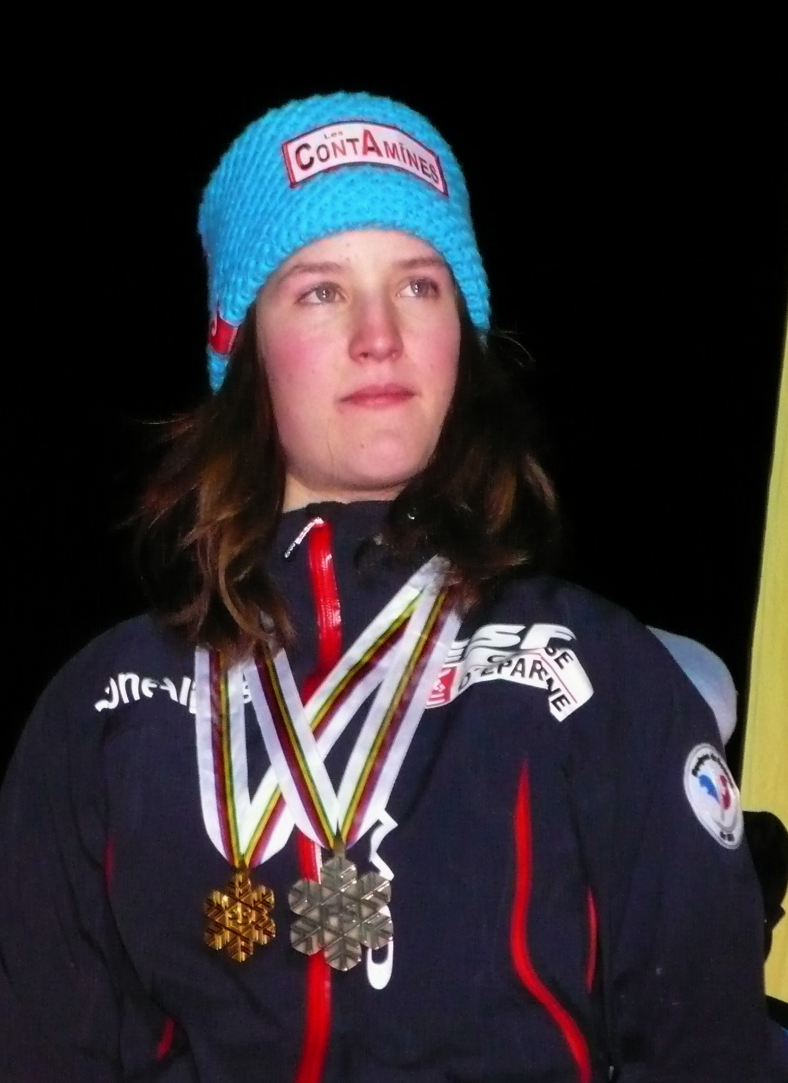 Coline Mattel with junior world gold medal 2011, and world bronze medal 2011, during ceremony at Les Contamines.